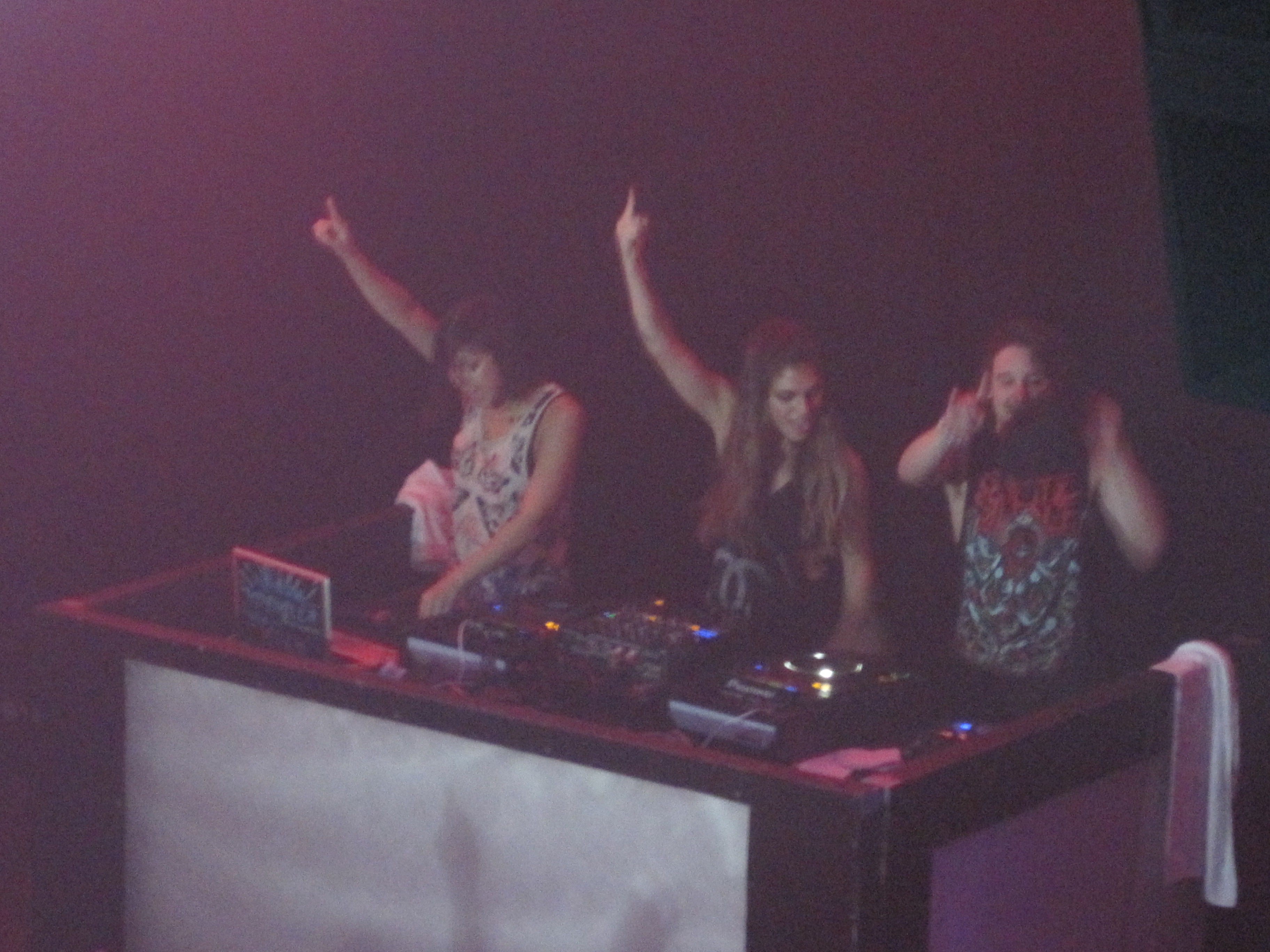 Krewella (from left to right: Yasmine Yousaf, Jahan Yousaf, and Kris "Rain Man" Trindl) performing at the Vogue Theatre in Indianapolis, Indiana on Friday, November 2nd, 2012.